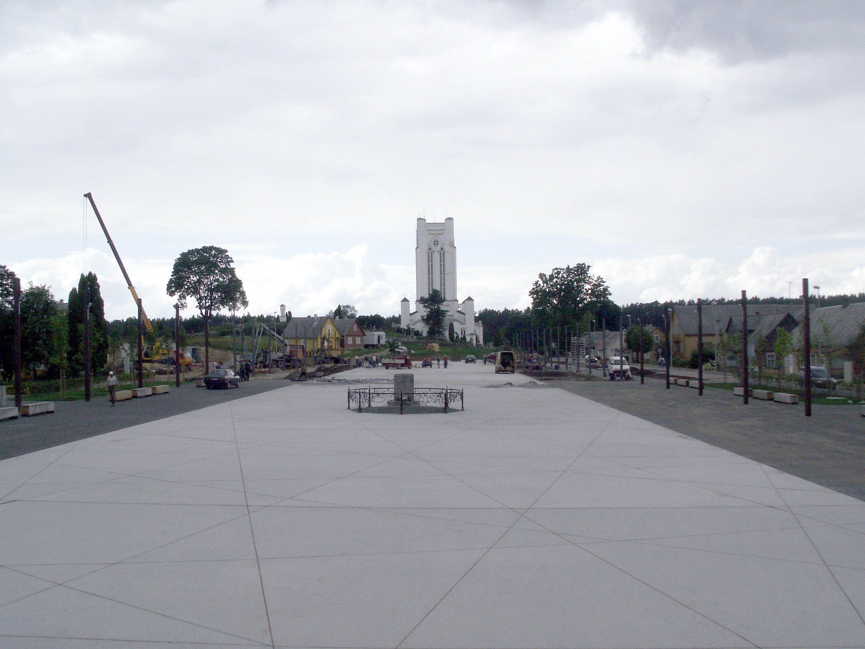 Šiluva chapel